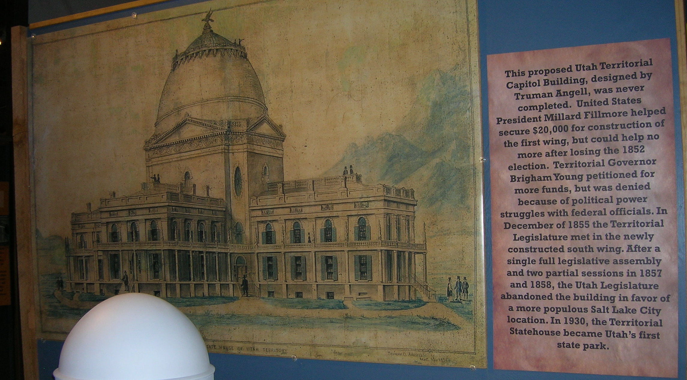 Architectural drawing of Utah Territorial Statehouse, as planned by Truman O. Angell, at Iron Mission State Park in Cedar City, Utah.